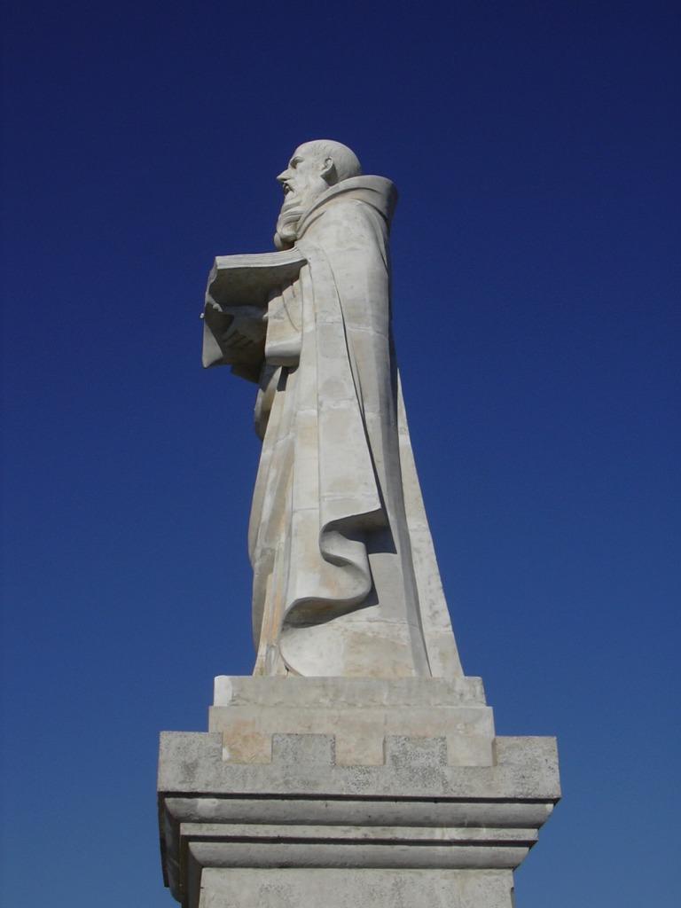 San Felices statue near Haro (La Rioja, Spain).